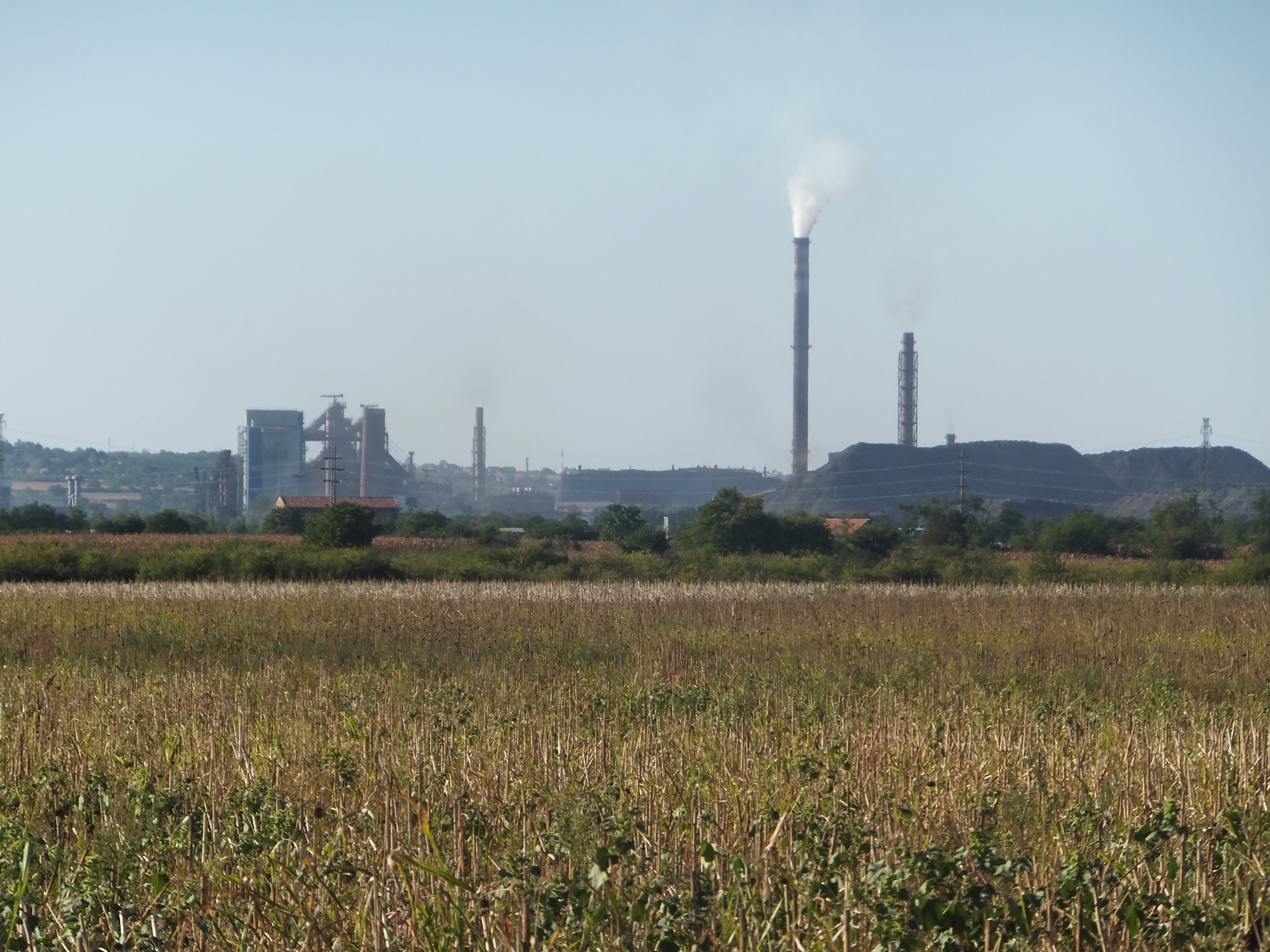 Ralja, Smederevo Steelworks